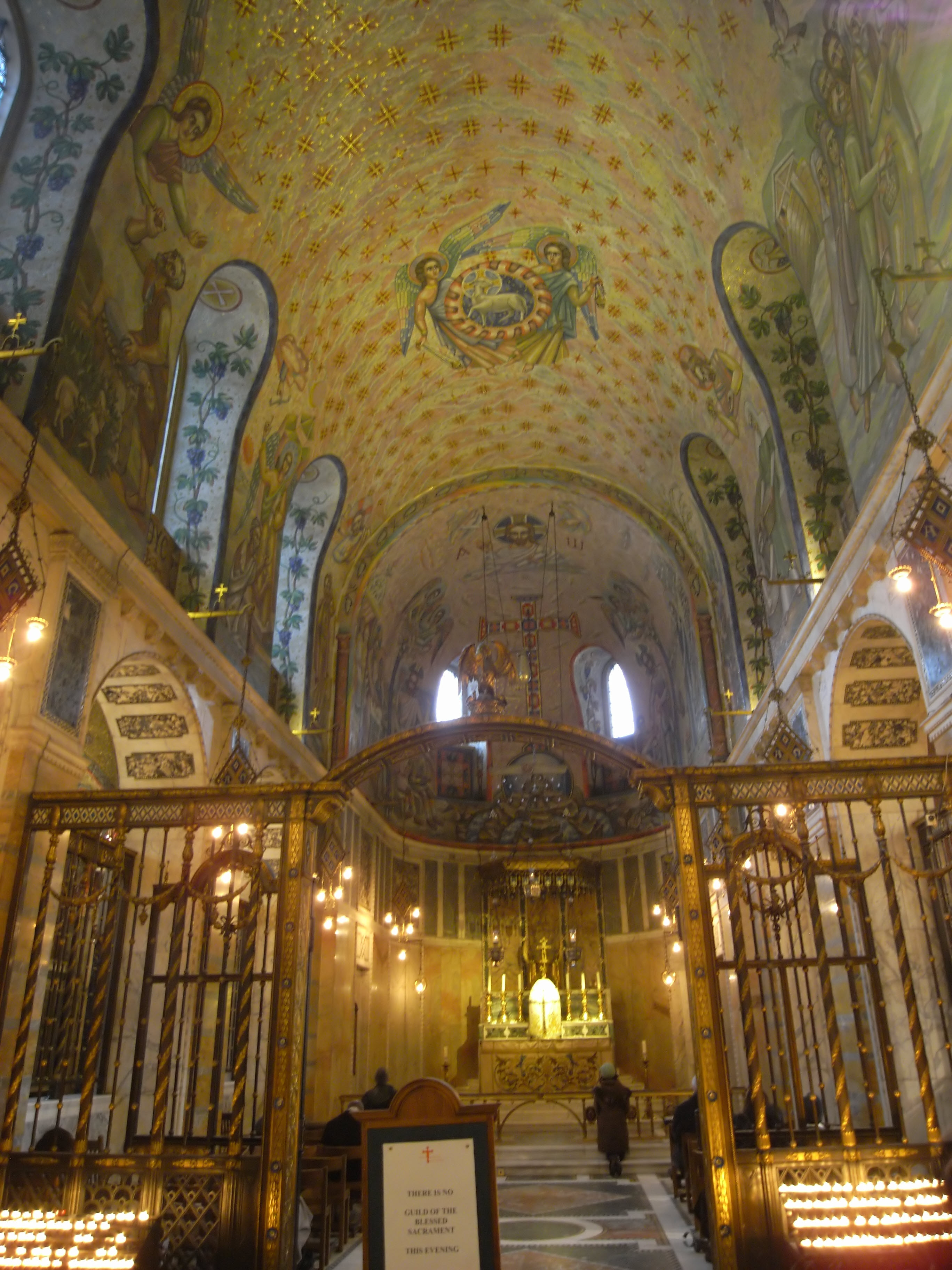 Westminster Cathedral, London, showing the Blessed Sacrament Chapel